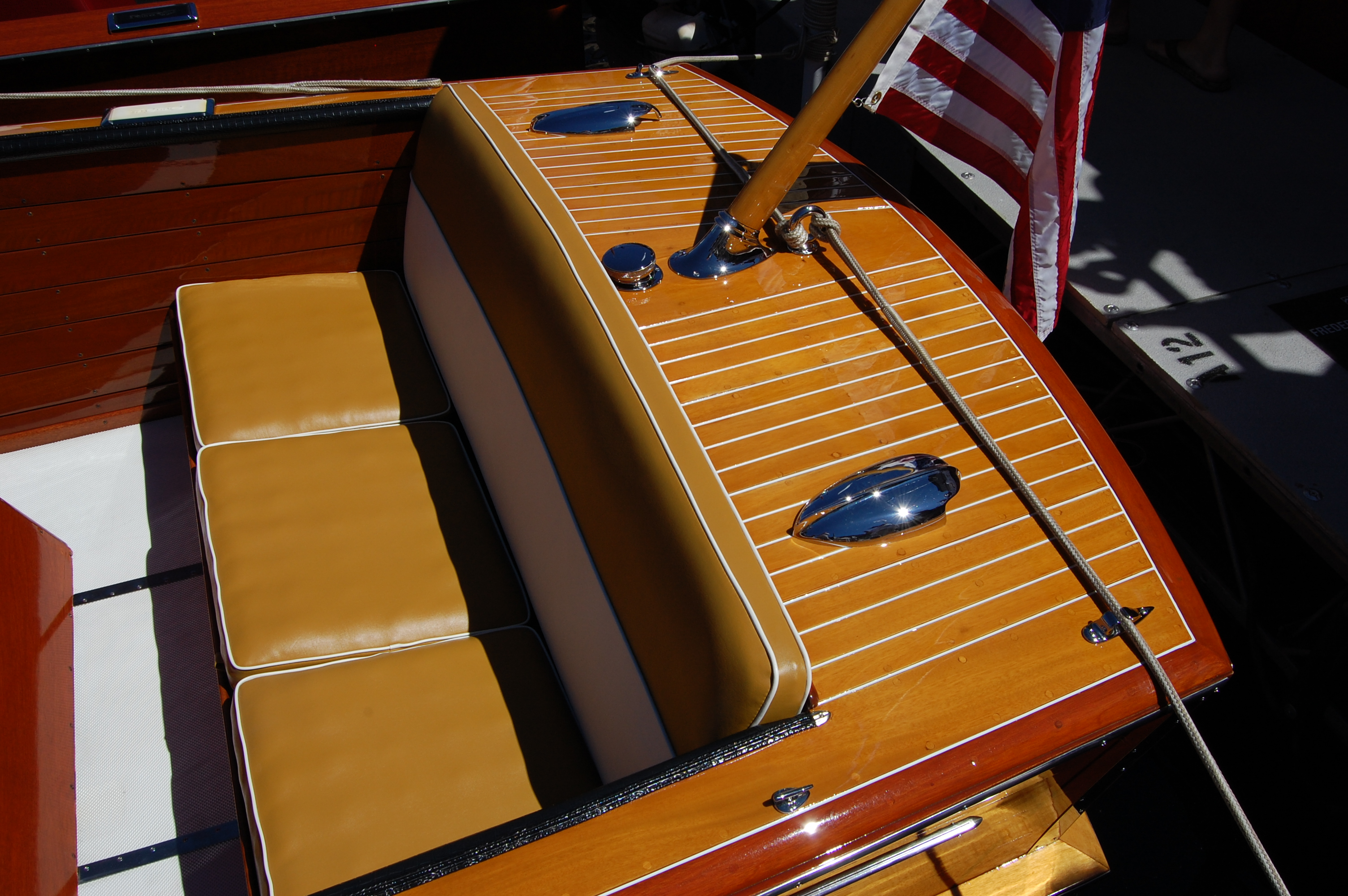 An example of a blondedeck chris craft